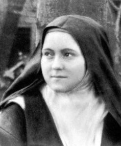 Thérèse of Lisieux (1873 – 1897)